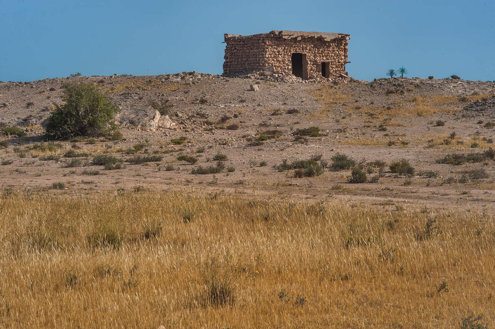 Ruins of a stone structure in a green area near Jebel Jassassiyeh, northern Qatar.